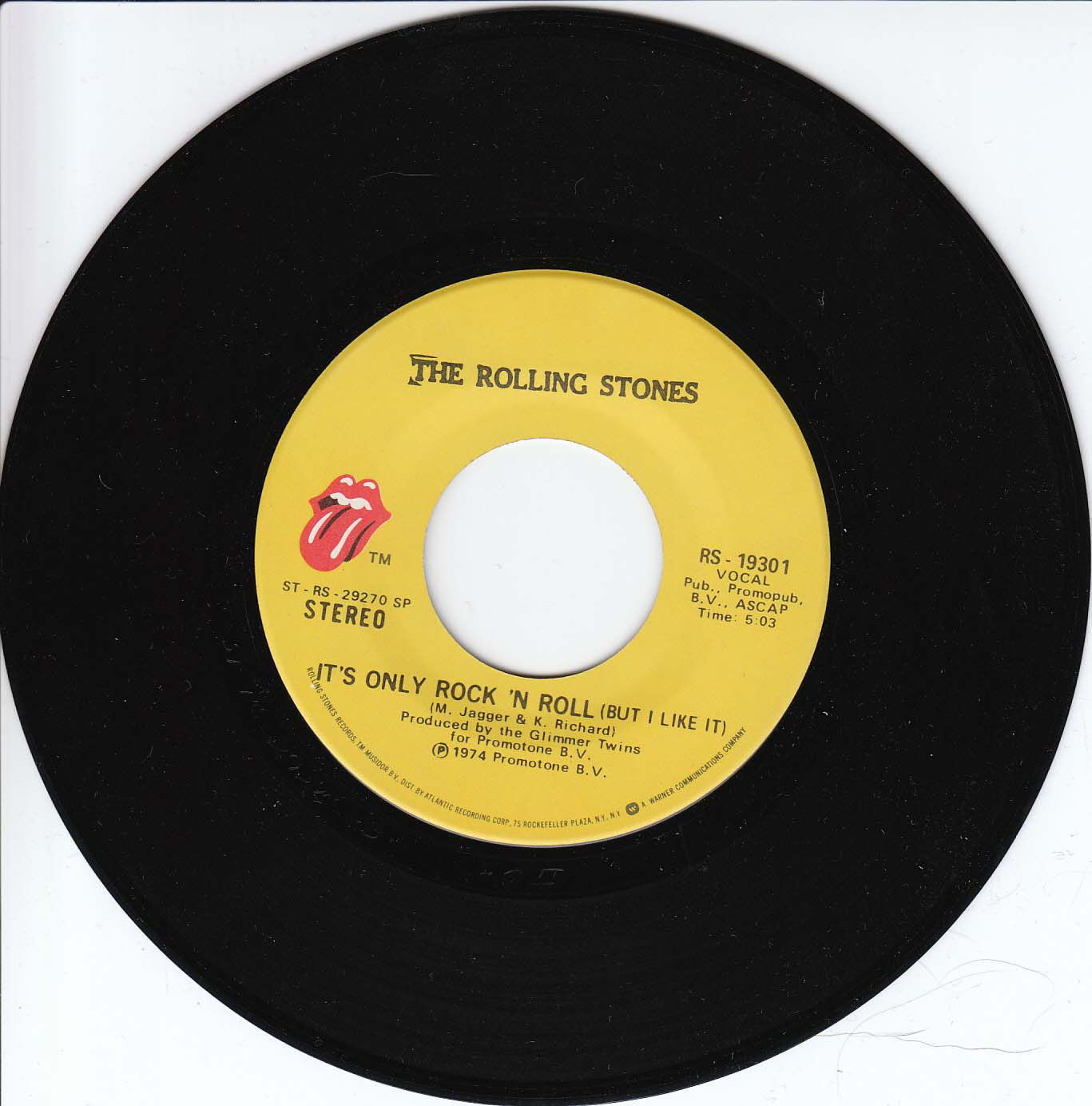 stones_0030